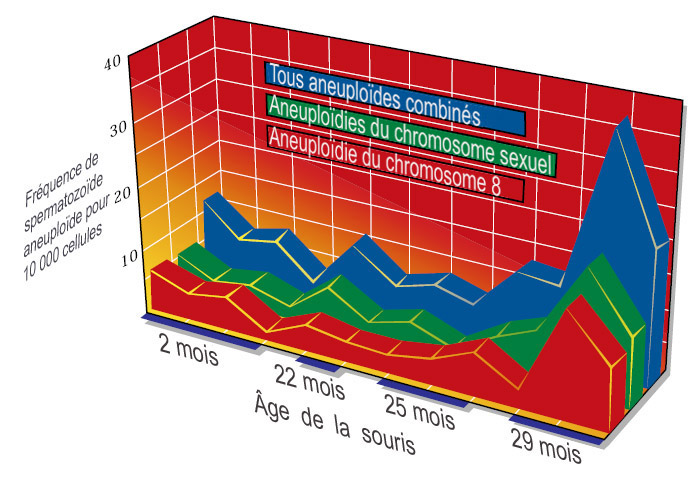 In the sperm of aged mice, as in older humans, scientist have found the largest age-related increases in two aneuploid conditions, XX8 and YY8. These curves show that the frequencies of aneuploid chromosomes in the sperm of mice increase with increasing age, especially after two years. This figure includes only those instances in which cells have gained a chromosome (From X. Lowe, et al., "Aneuploidies and Micronuclei in the Germ Cells of Male Mice of Advanced Age", Mutation Research ; 1995)